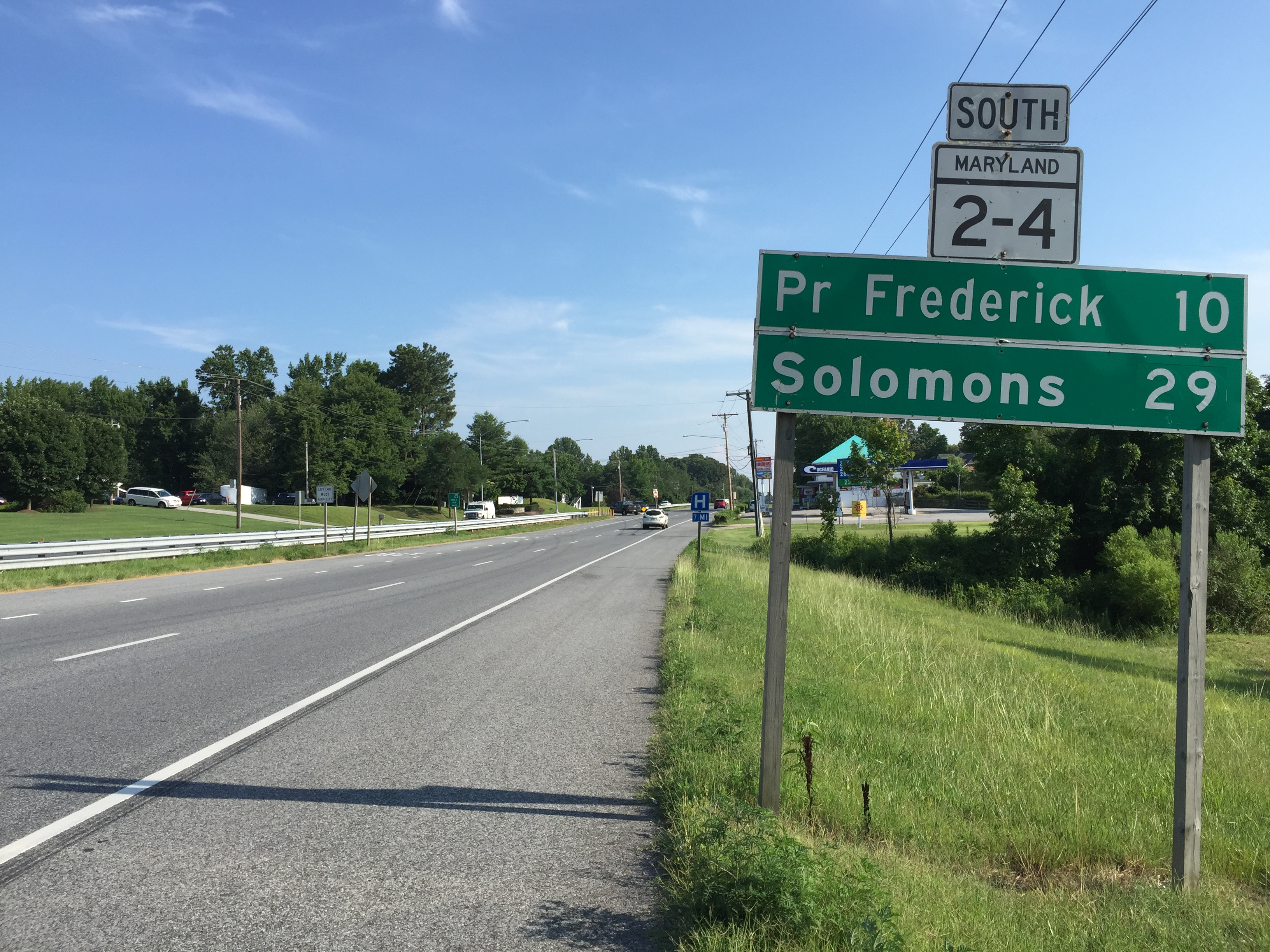 View south along Maryland State Route 2 and Maryland State Route 4 (Solomons Island Road) just south of Southern Maryland Boulevard in Calvert County, Maryland